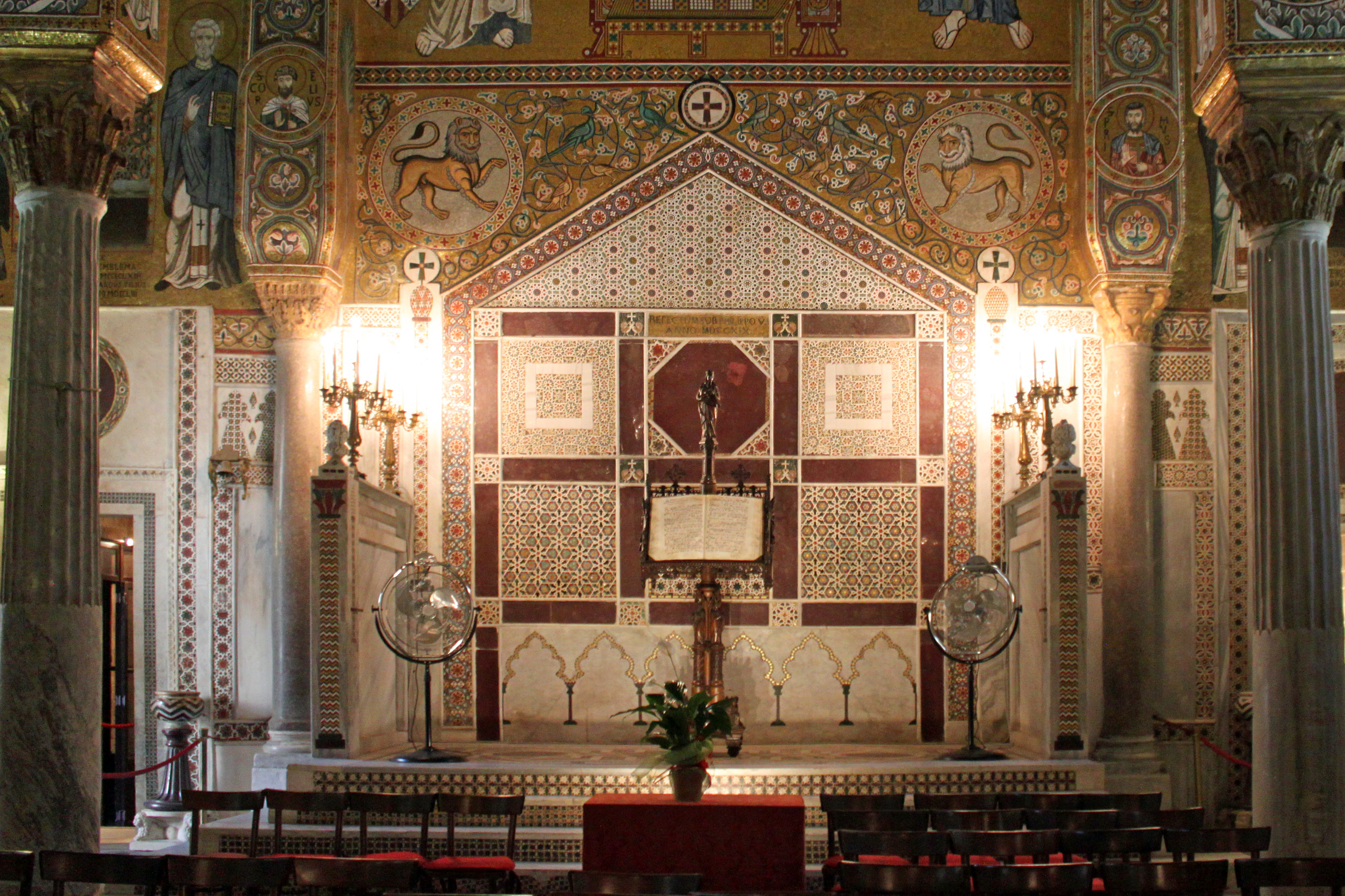 Palatine Chapel, Palermo. Royal throne